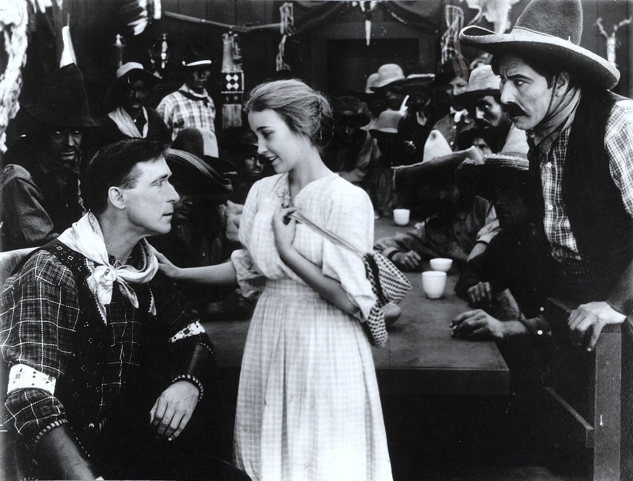 The Aryan (1916) is an American silent era Western motion picture starring William S. Hart, Gertrude Claire, Charles K. French, Louise Glaum, and Bessie Love.